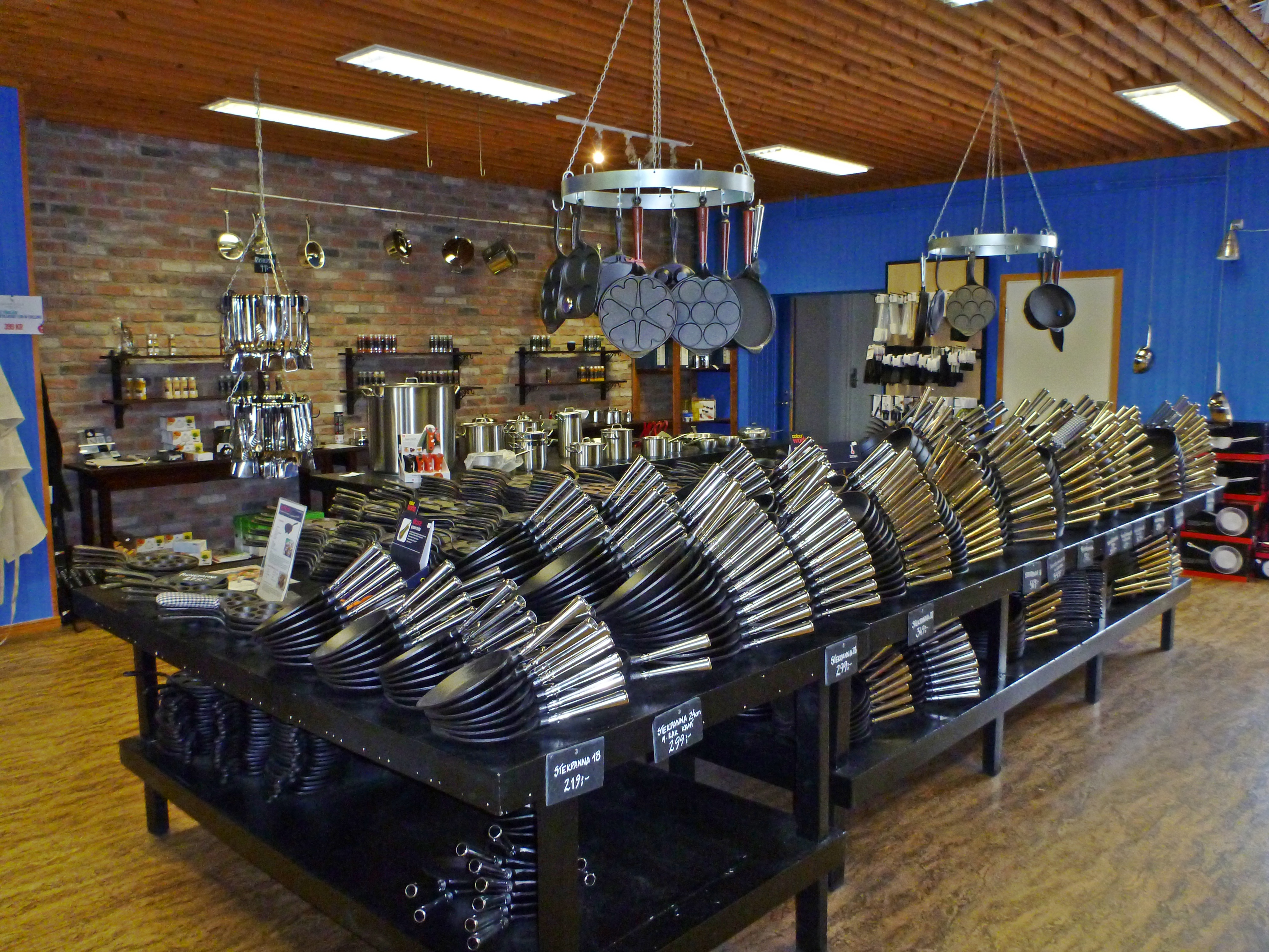 Salesroom of the Skeppshults Gjuteri AB